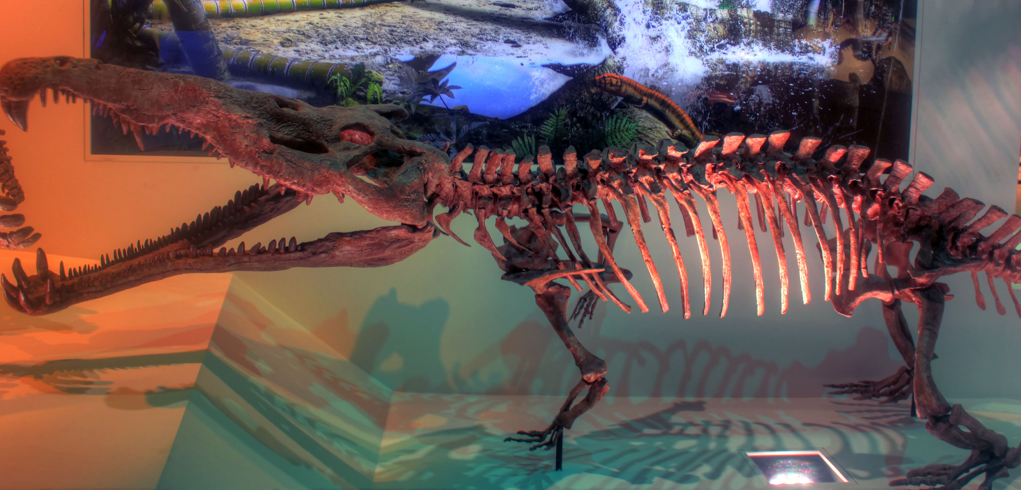 Bones and remains of prehistoric animals Smilosuchus, an extinct genus of reptile from the late triassic period in North America.